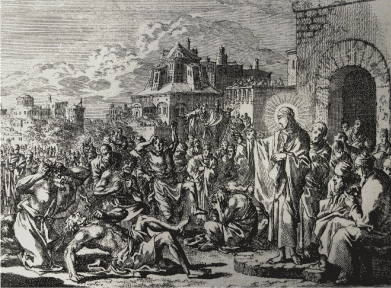 Christ heals the possessed. Jan Luyken. In the Bowyer Bible in Bolton Museum, England. Print 4234. From “An Illustrated Commentary on the Gospel of Mark” by Phillip Medhurst. Section D. Jesus confronts uncleanness. Mark 1:21-45, 2:1-12, 5:1-20, 25-34, 7:24-30.